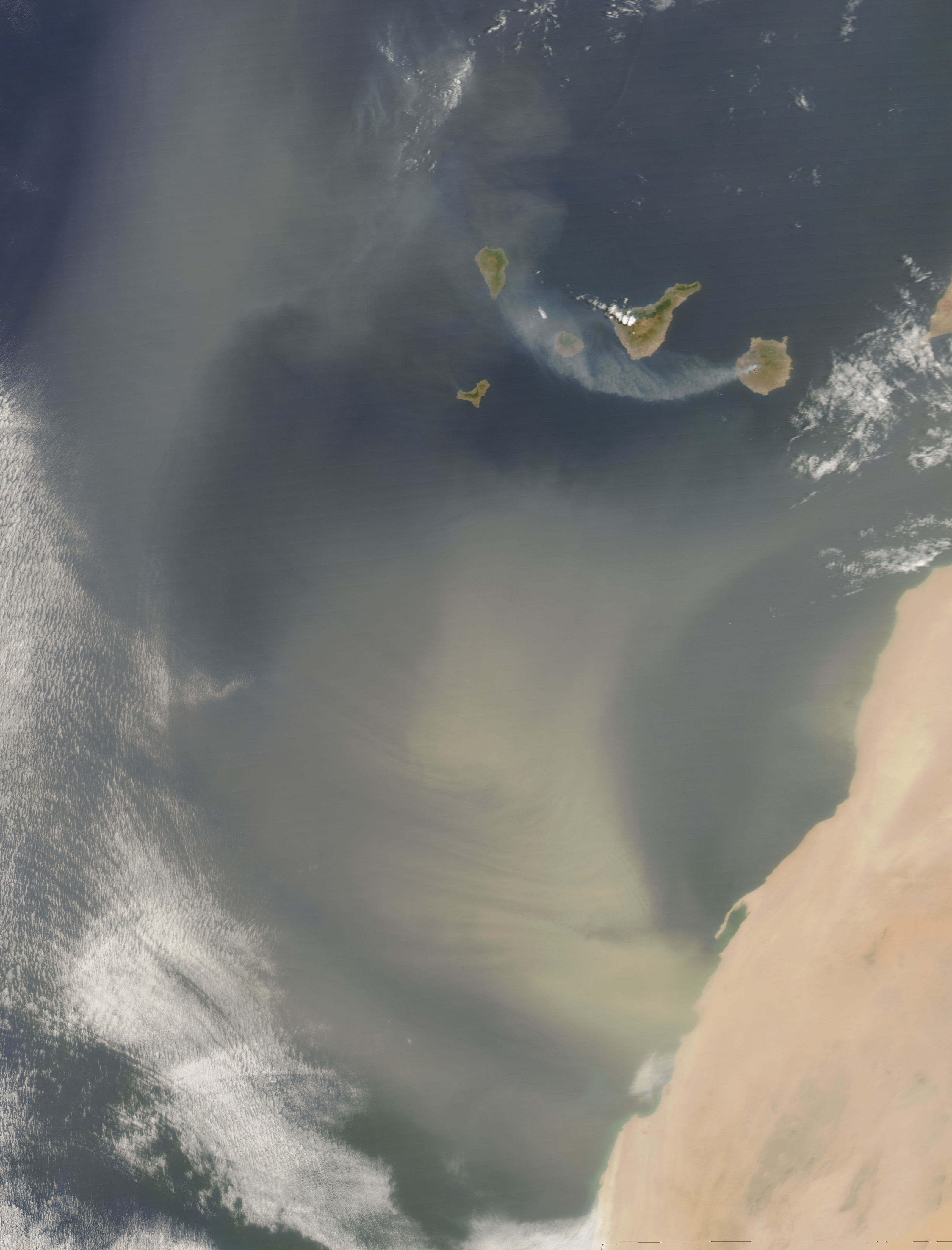 Dust and Smoke off the West Coast of Africa Dust and smoke mixed over the Atlantic as the Moderate Resolution Imaging Spectroradiometer (MODIS) on NASA’s Aqua satellite took this picture on July 28, 2007. In this image, a beige dust plume hundreds of kilometers long blows off the west coast of Africa in a clockwise direction, toward the northwest. West of that plume is another, lighter plume, which may consist of dust or some combination of dust and smoke. As the dust blows off the Sahara, a plume of pale gray smoke blows off Gran Canaria [due to an important forest fire], also curving toward the northwest. While the smoke largely skirts Tenerife, it heads straight for San Sebastián [La Gomera island] and Santa Cruz [La Palma island].